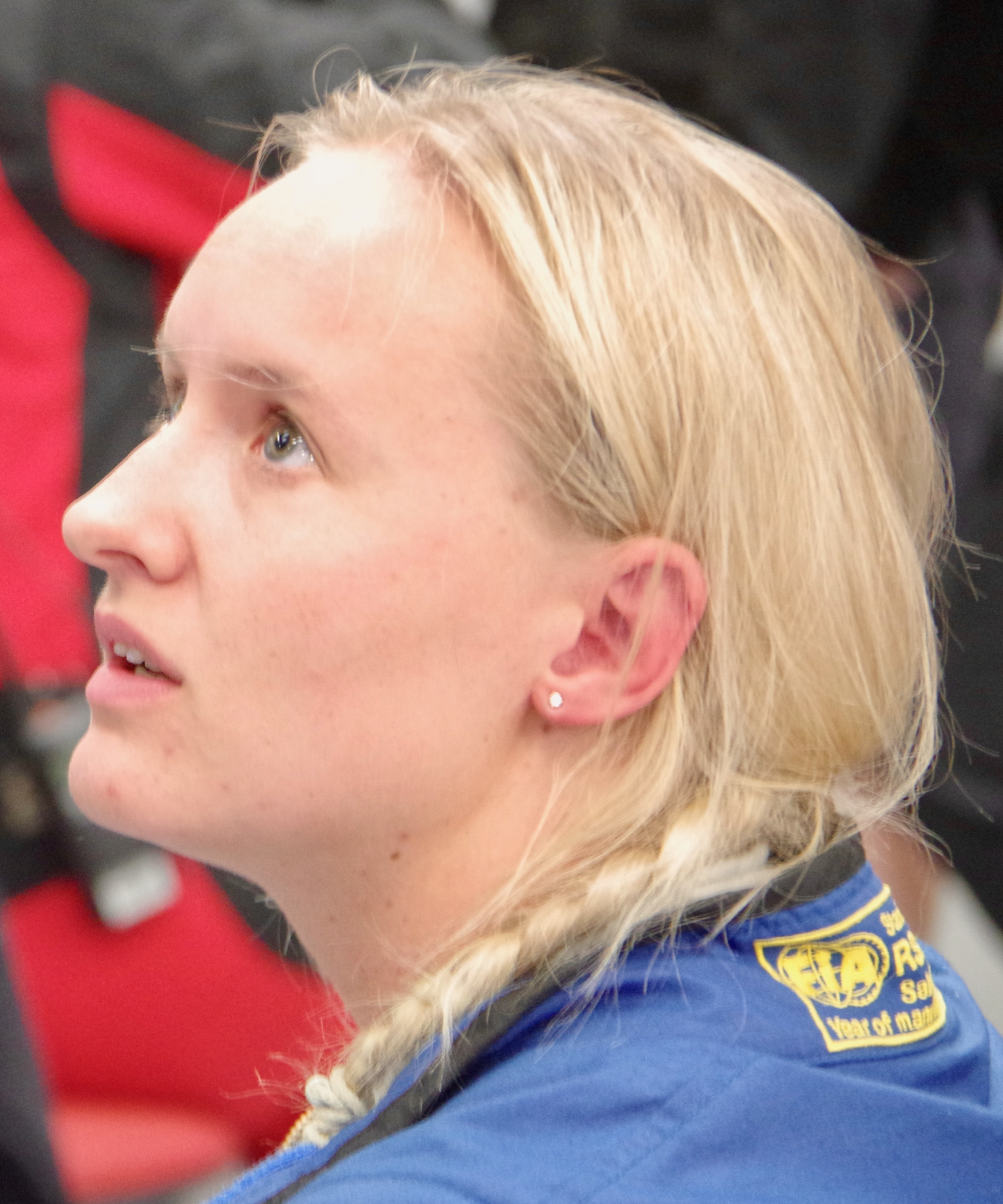 Michelle Gatting European Le Mans Series Silverstone 2019 - The 4 Hours of Silverstone